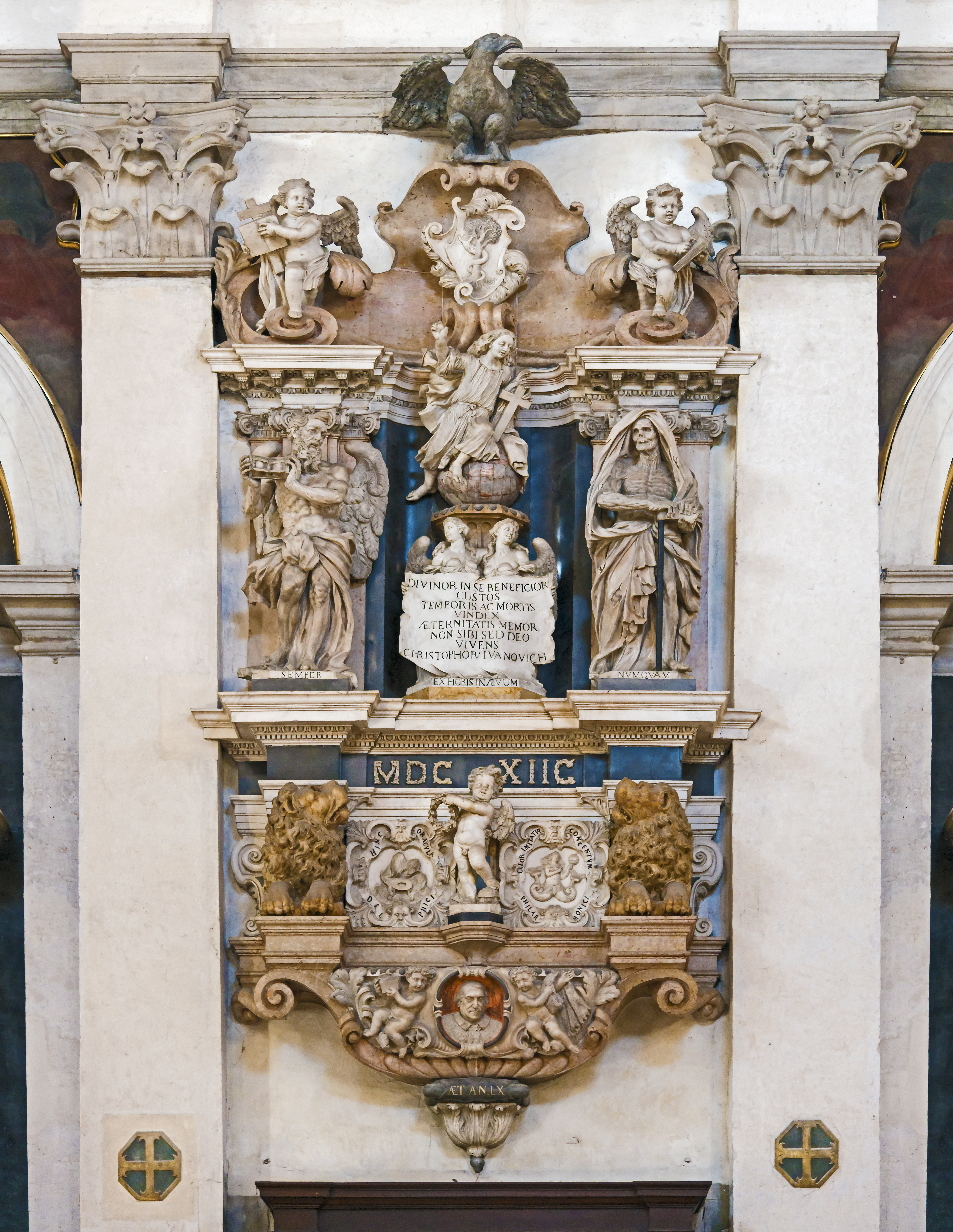 San Moisè in Venice. Funerary monument of Cristoforo Ivanovich by Marco Beltrame.